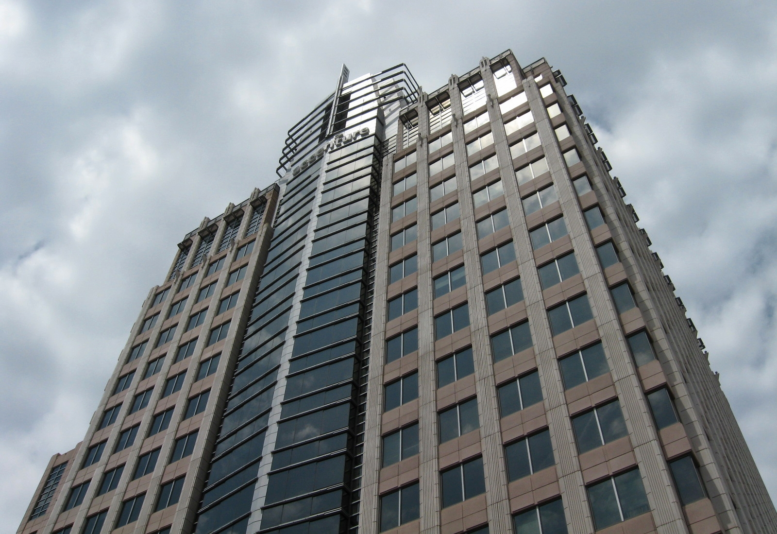 The Accenture building in Reston Town Center in Reston, Virginia.